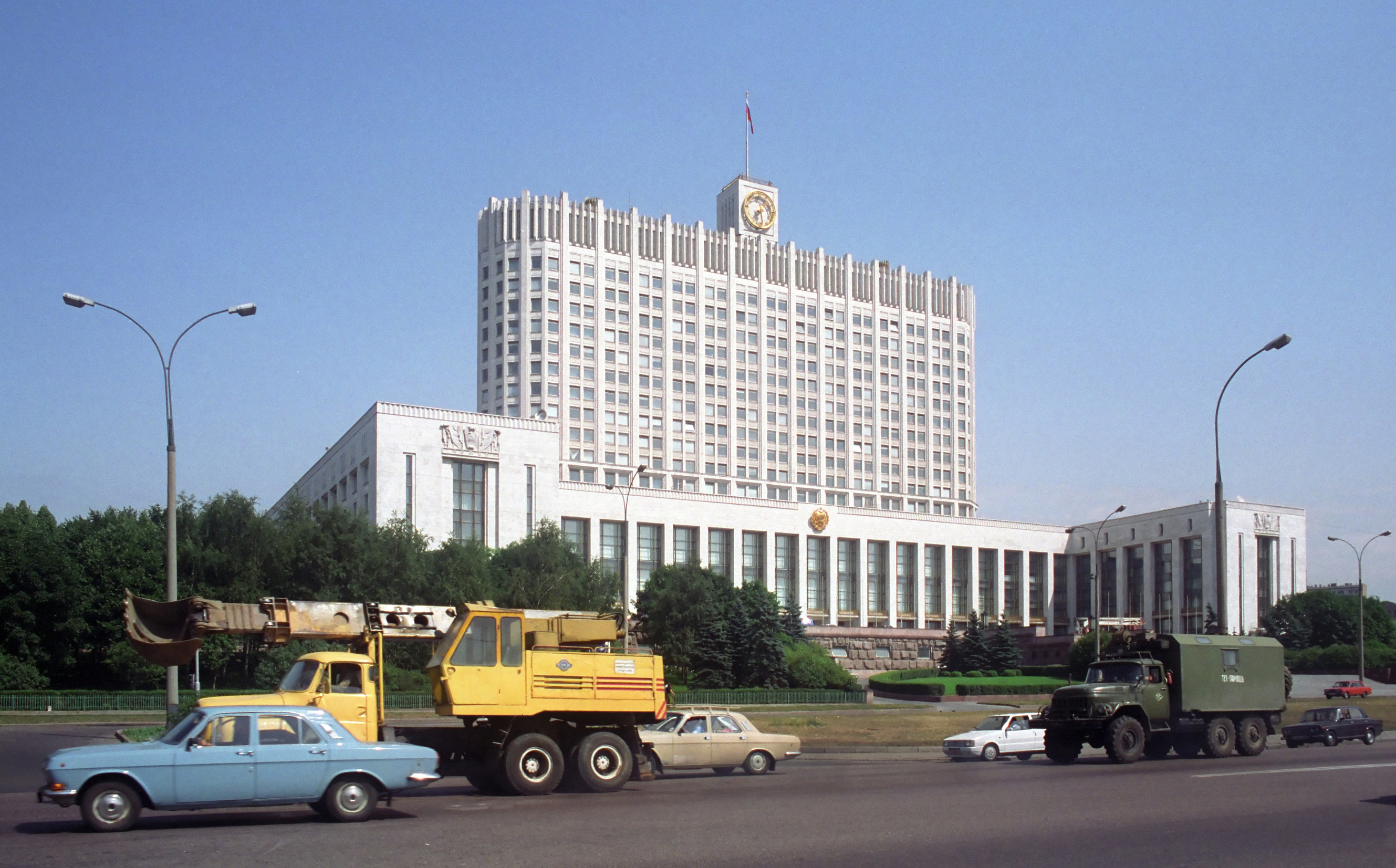 White House, Moscow, at the Krasnopresnenskaya embankment. Architects: Dmitry Chechulin and P. Shteller. Canon A-1, Canon FD 28/2.8, Kodak Gold. Scan with Nikon Coolscan 5000 ED at 4000 dpi and 16 bit color depth, noise/grain reduction with Noise Ninja (strength 70), perspective correction with PTLens, size reduction 50%.